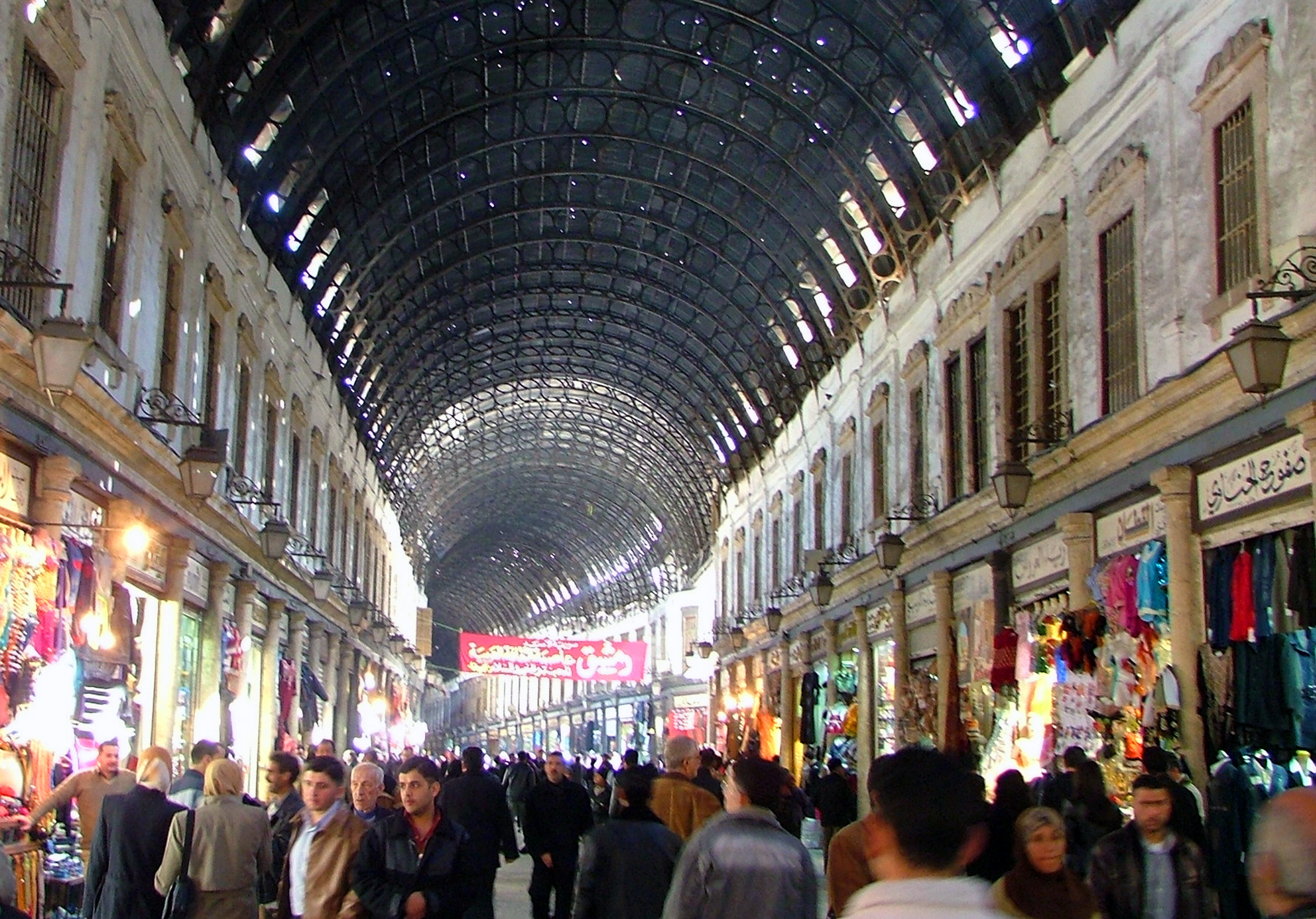 Al-Hamidiyah Souq is the largest and the most central souk in Damascus, Syria, located inside the old walled city next to the Citadel. The souq starts at Al-Thawra street and ends at the Great Umayyad Mosque plaza.The tin roofs over Medhat Pasha and Souq Al-Hamidiyeh date from the 19th century Ottoman refurbishment of the main souqs. During the insurgency against the French occupation, the cities' souqs were strafed by French Air Force aircraft. The bullet punctures have remained that way for almost one hundred years. The shafts of sunlight which pierce into the dark souqs are blindingly beautiful, and a daily reminder of Syria's struggle for independence. But the centuries-old black Medhat Pasha roof, which was decorated by history, has been replaced by a new white one.